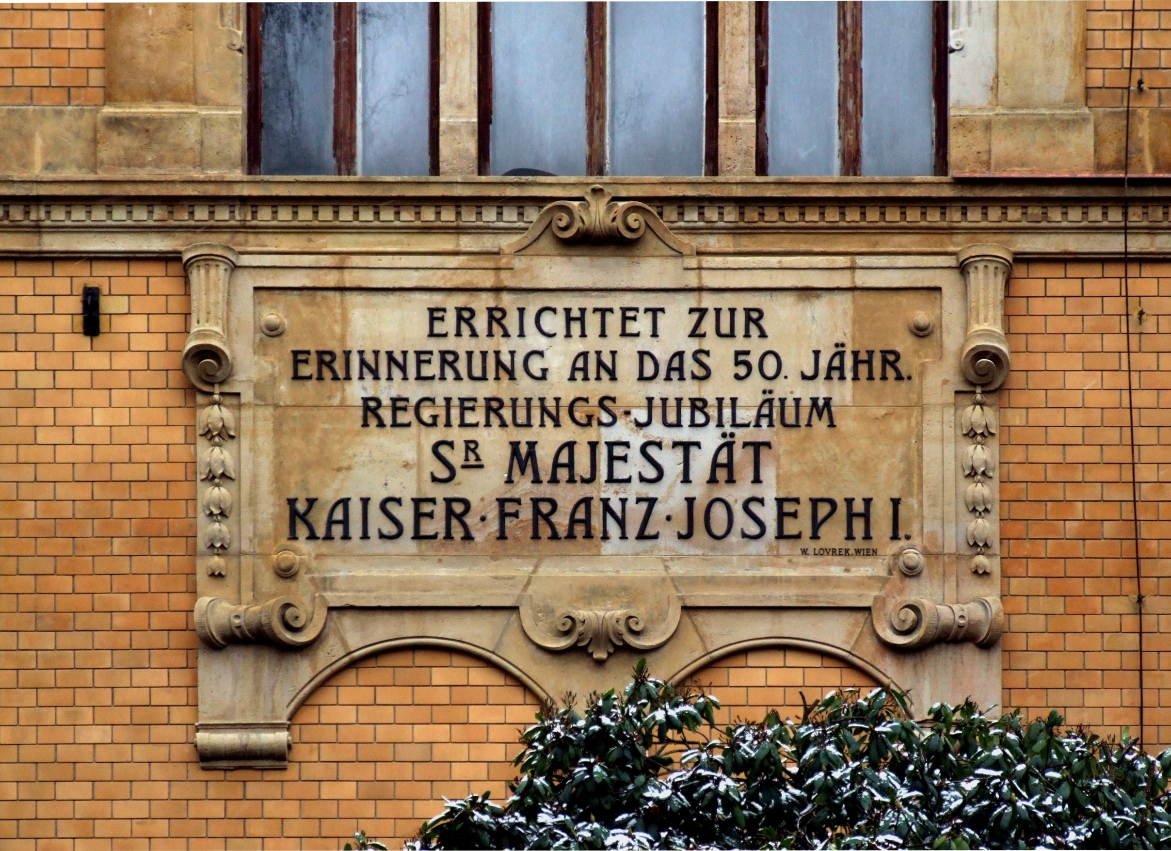 Liberec (Reichenberg) - plaque on the wall of the former city baths